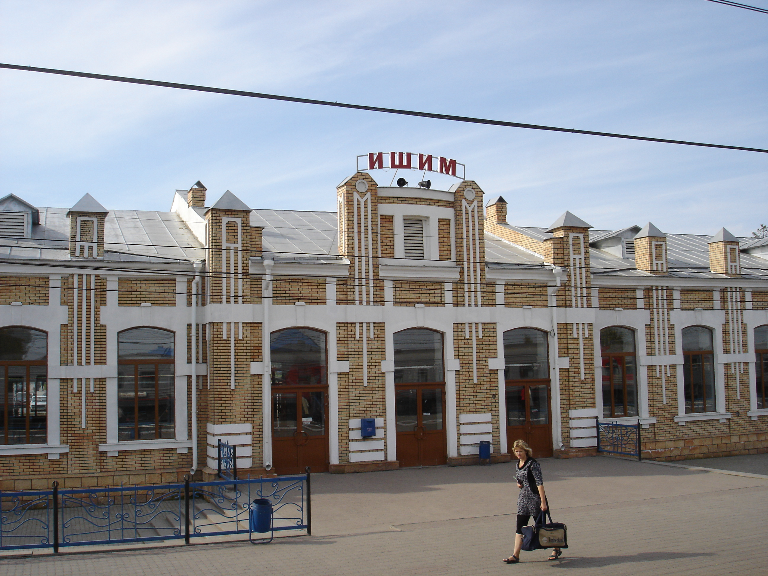 Ishim train station, Russian railroads, Tyumen oblast. Main view at the station building center